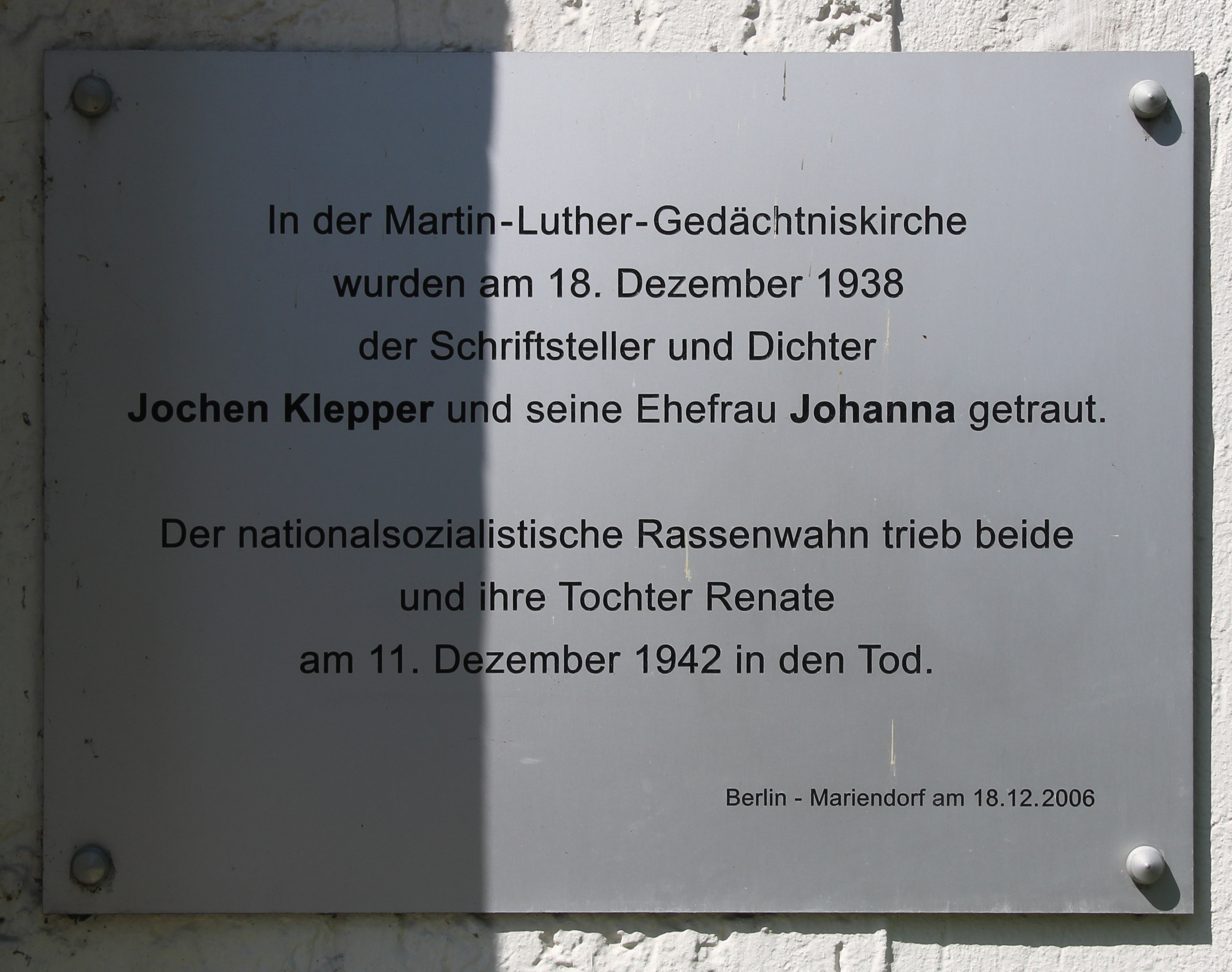 Memorial plaque, Jochen Klepper, Rathausstraße 28, Berlin-Mariendorf, Germany